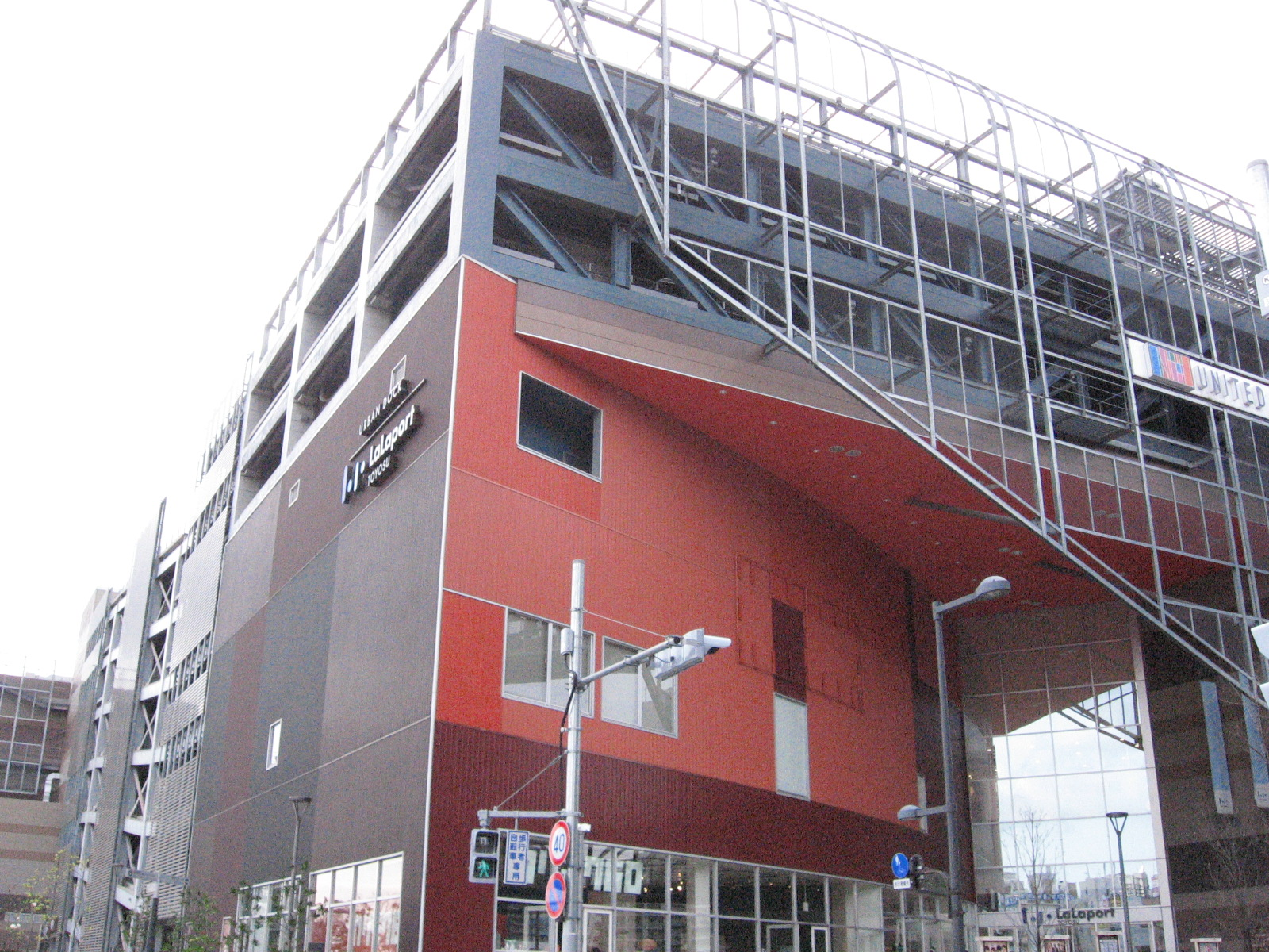 Urban-Dock LaLaport Toyosu Main buildings.